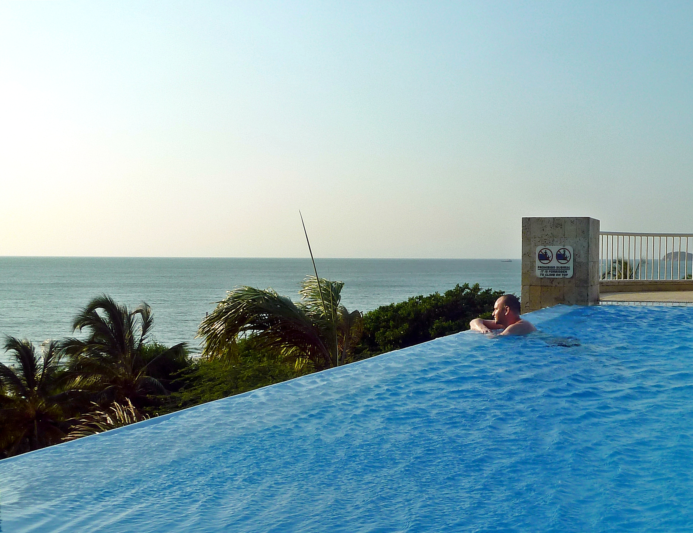 An infinity pool at Irotama Resort, Santa Marta, Colombia.